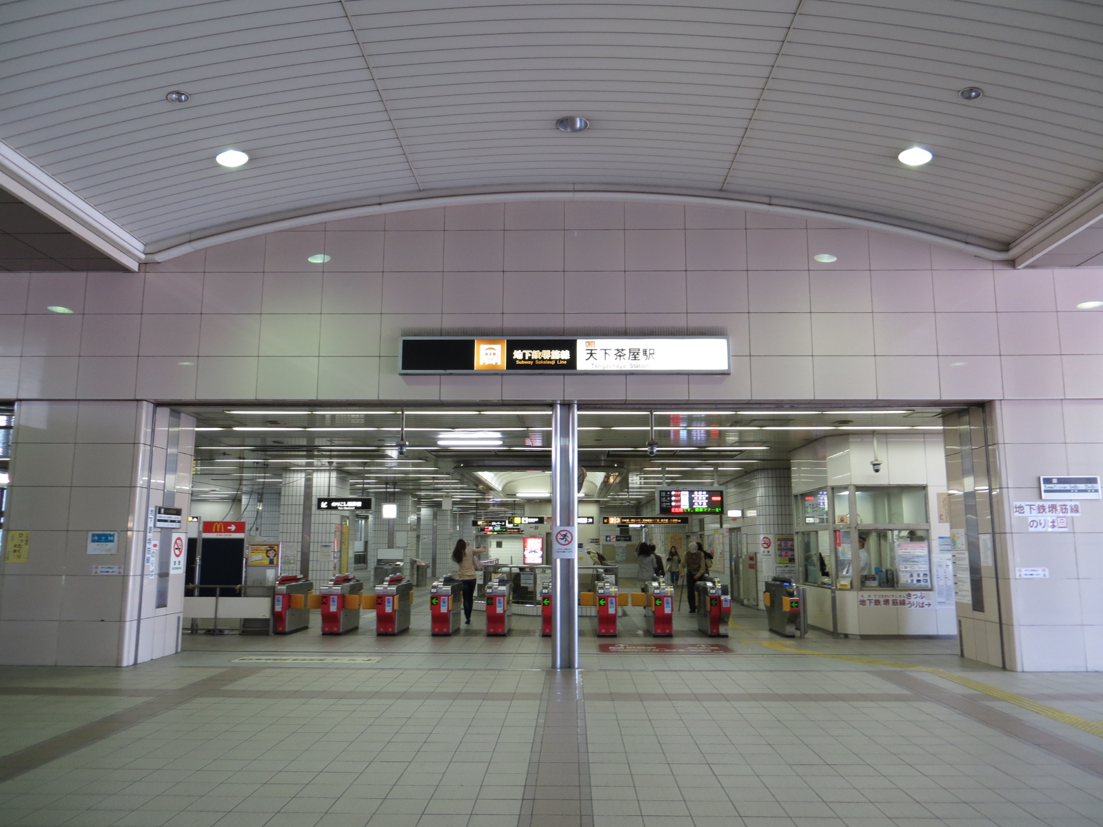 Ticket barrier (Sakaisuji Line) from Tengachaya Station.